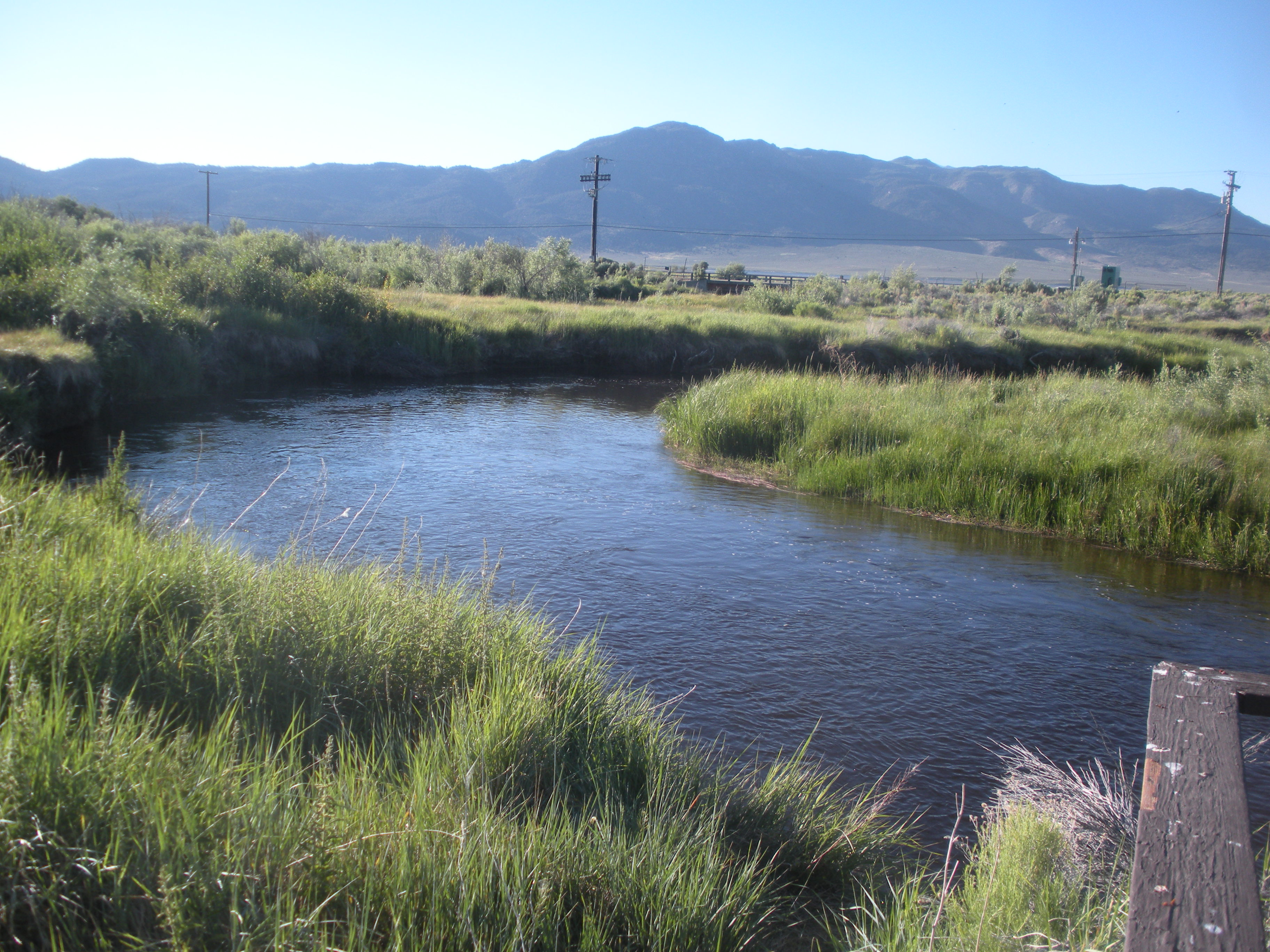 This is the East Walker River in Bridgeport, California. Originally posted to my Flickr